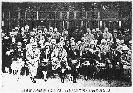 Lü Bicheng in Vienna